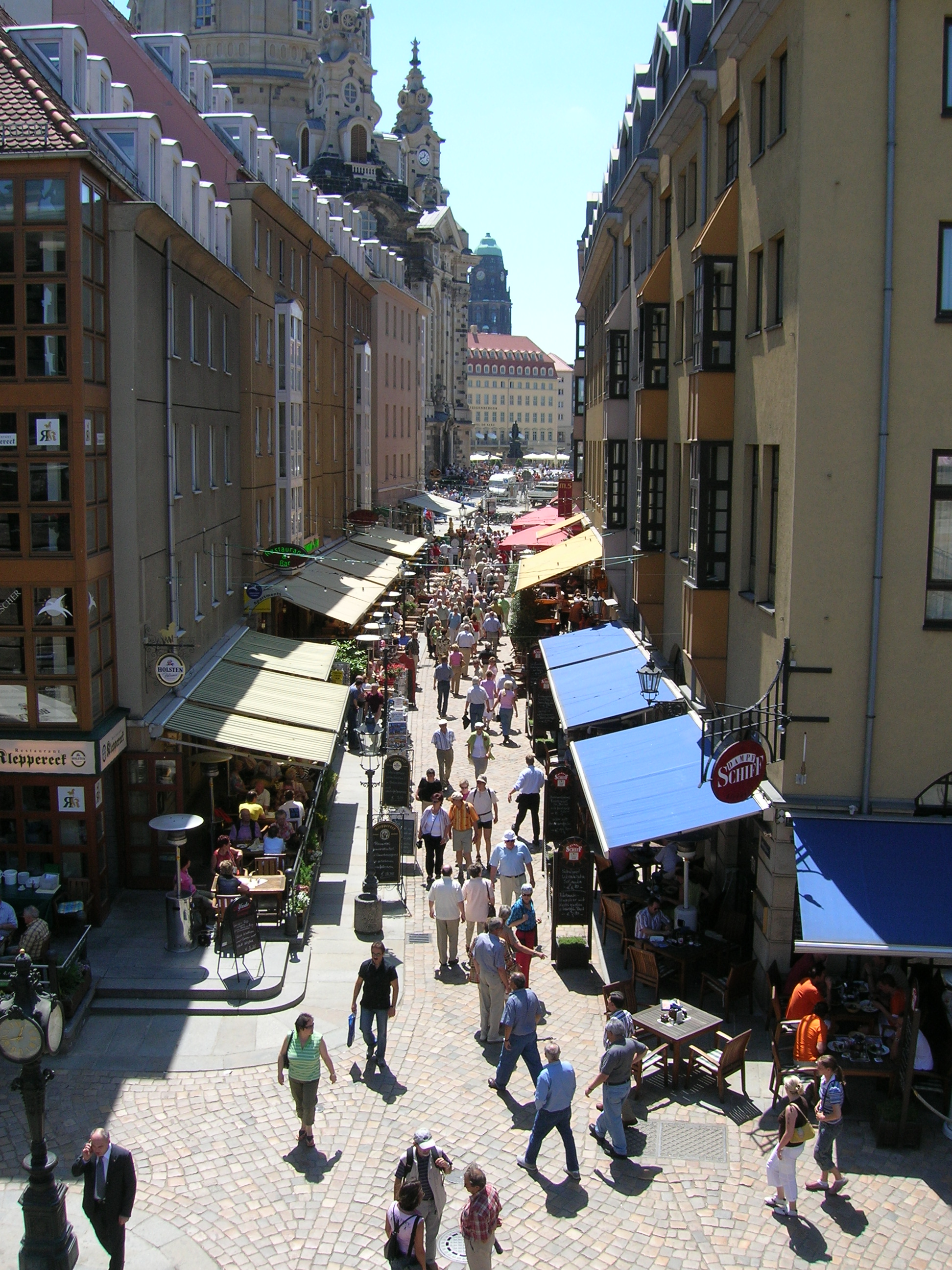 Dresden Münzgasse